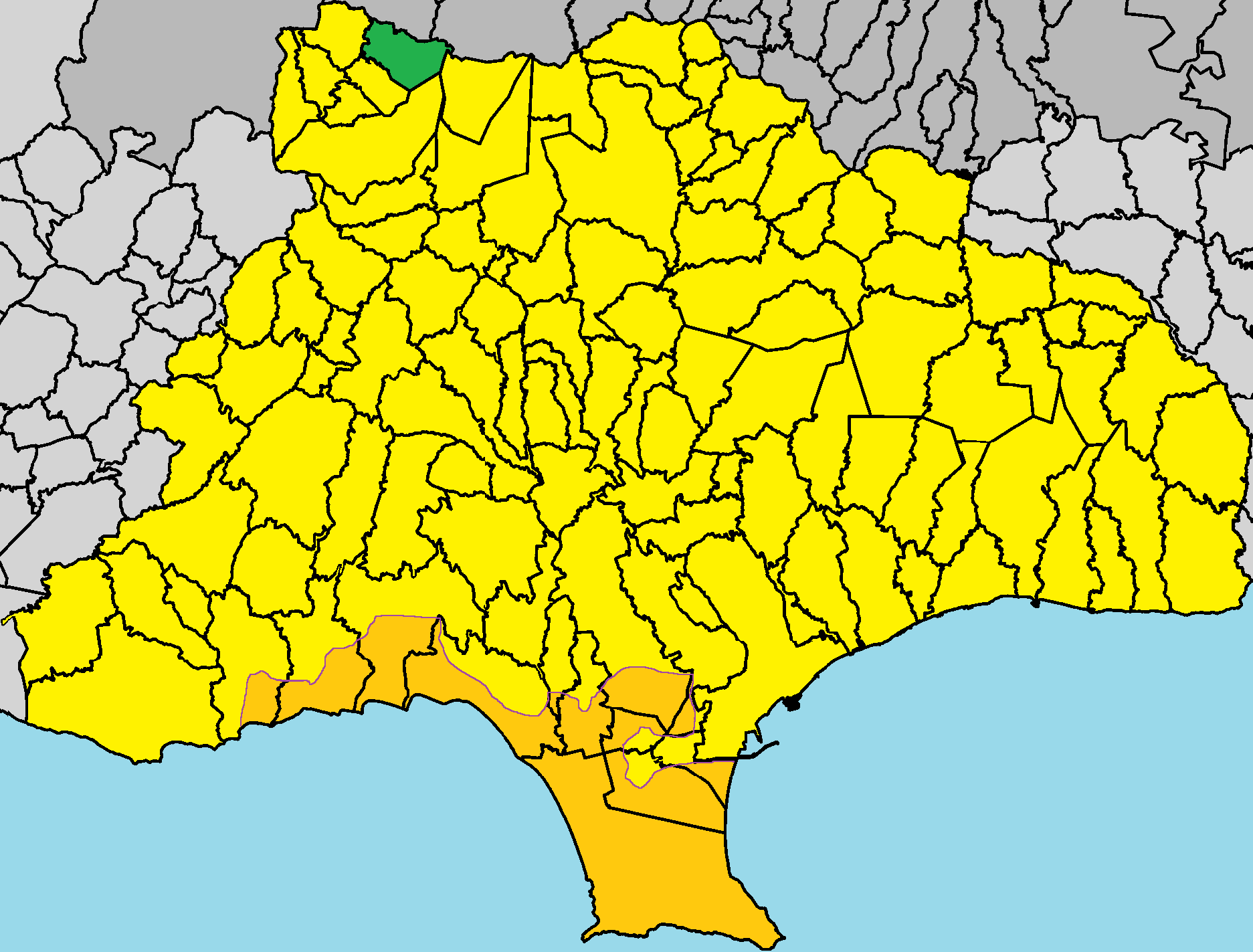 Prodromos, Cyprus in Limassol District.